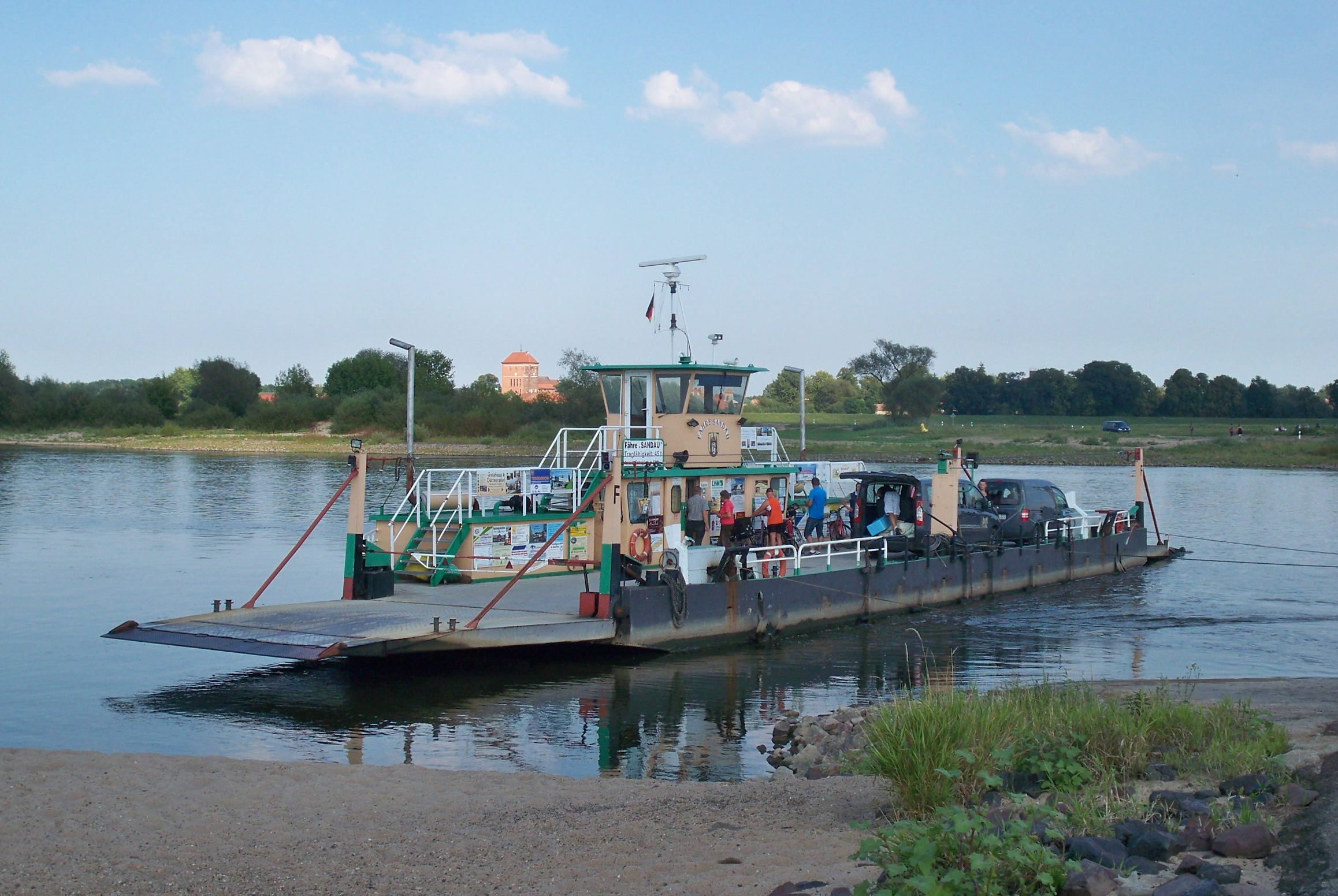 Sandau (Elbe), Saxony-Anhalt, Elbe ferry from western bank of river Elbe, with Sandau in the background